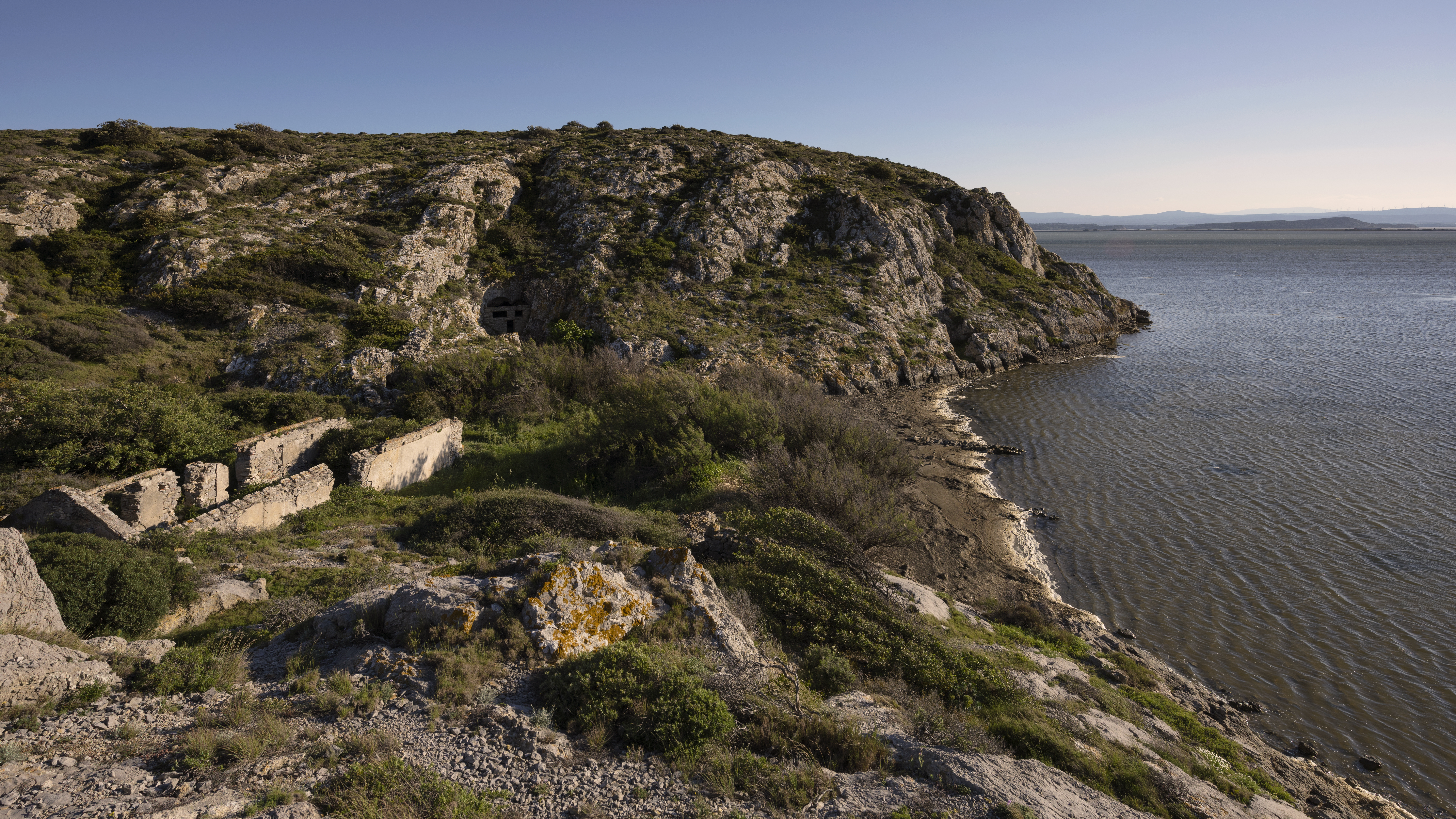 Étang de l'Ayrolle and an abandoned building in the Island Saint-Martin. Narbonnaise en Méditerranée Regional Natural Park, commune of Gruissan, Aude, France